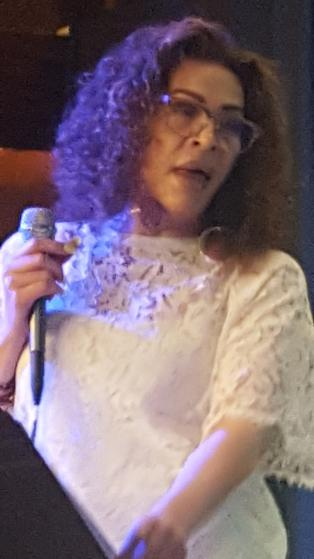 Maria del Sol preparing for a service in Semilla Orange County.